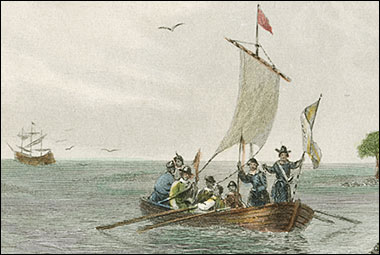 This painting by Seth Eastman, c.1850 depicts a 'small' pinnace, a boat design that was used on the earliest voyages from England to establish the Popham Colony in southern Maine, and settlement at Jamestown and other sites on coastal Virginia in the first decade of the 17th century. The 1584 date refers to the ill-fated, late 16th century English colony at Roanoke, Virginia.